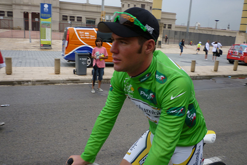 British and Manx cyclist Mark Cavendish wearing the green jersey in Barcelona during the 2009 Tour de France